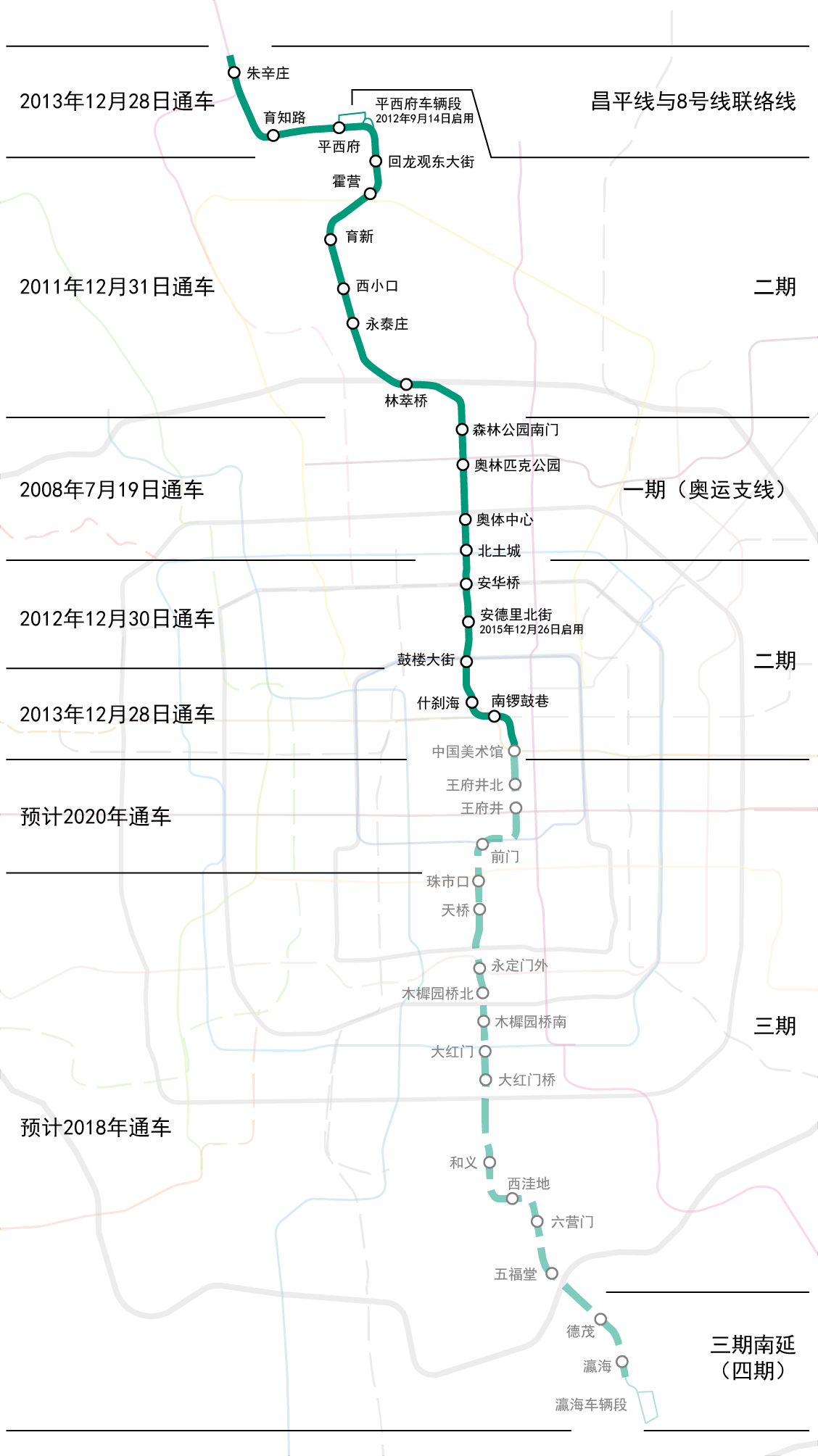 Route map of Line 8, Beijing Subway. Drawn to the scale. Phases and opening dates noted.